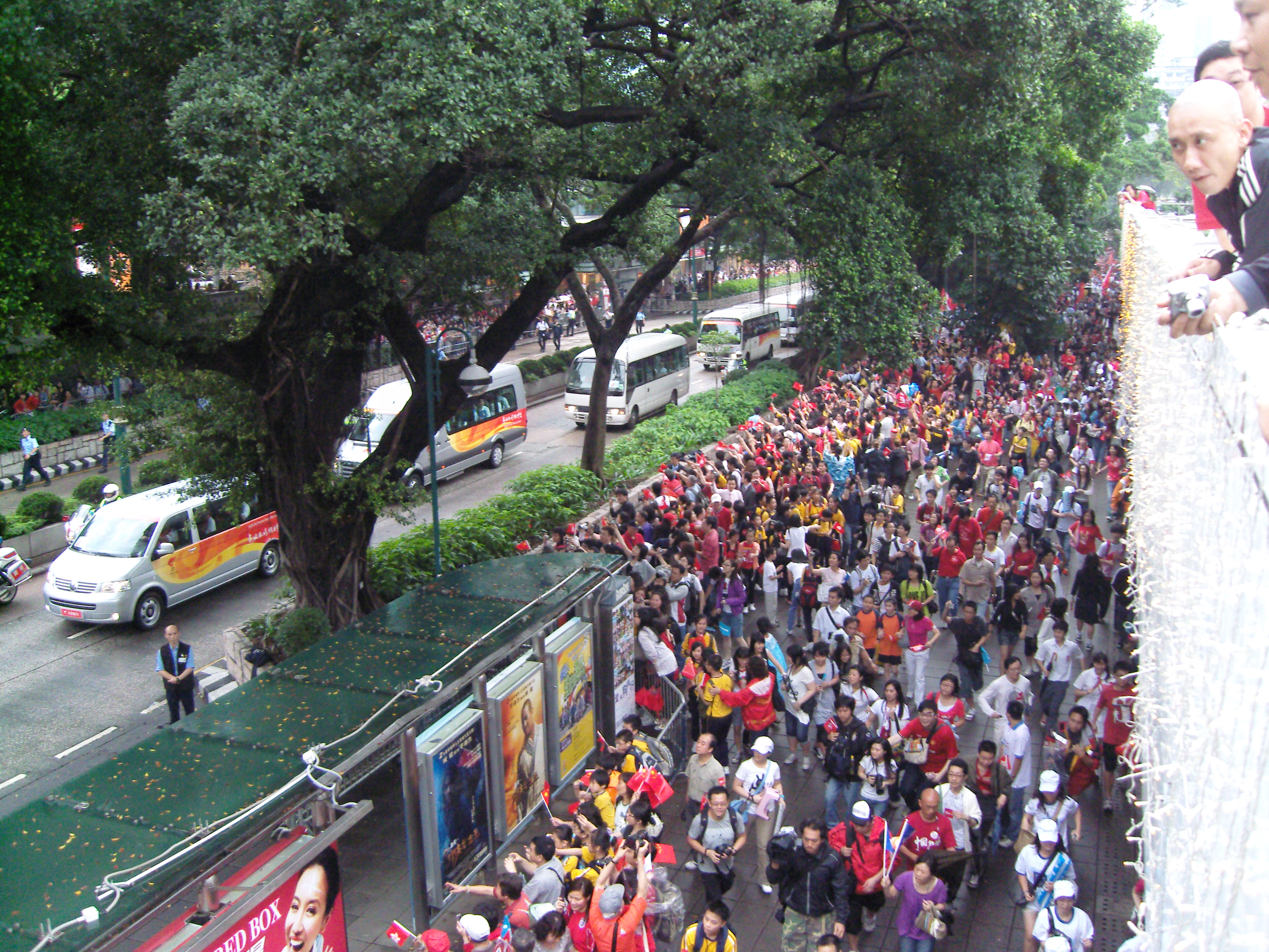 2008 Summer Olympics Torch in Tsim Sha Tsui, Hong Kong.